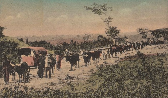 Benguella Boer chariot